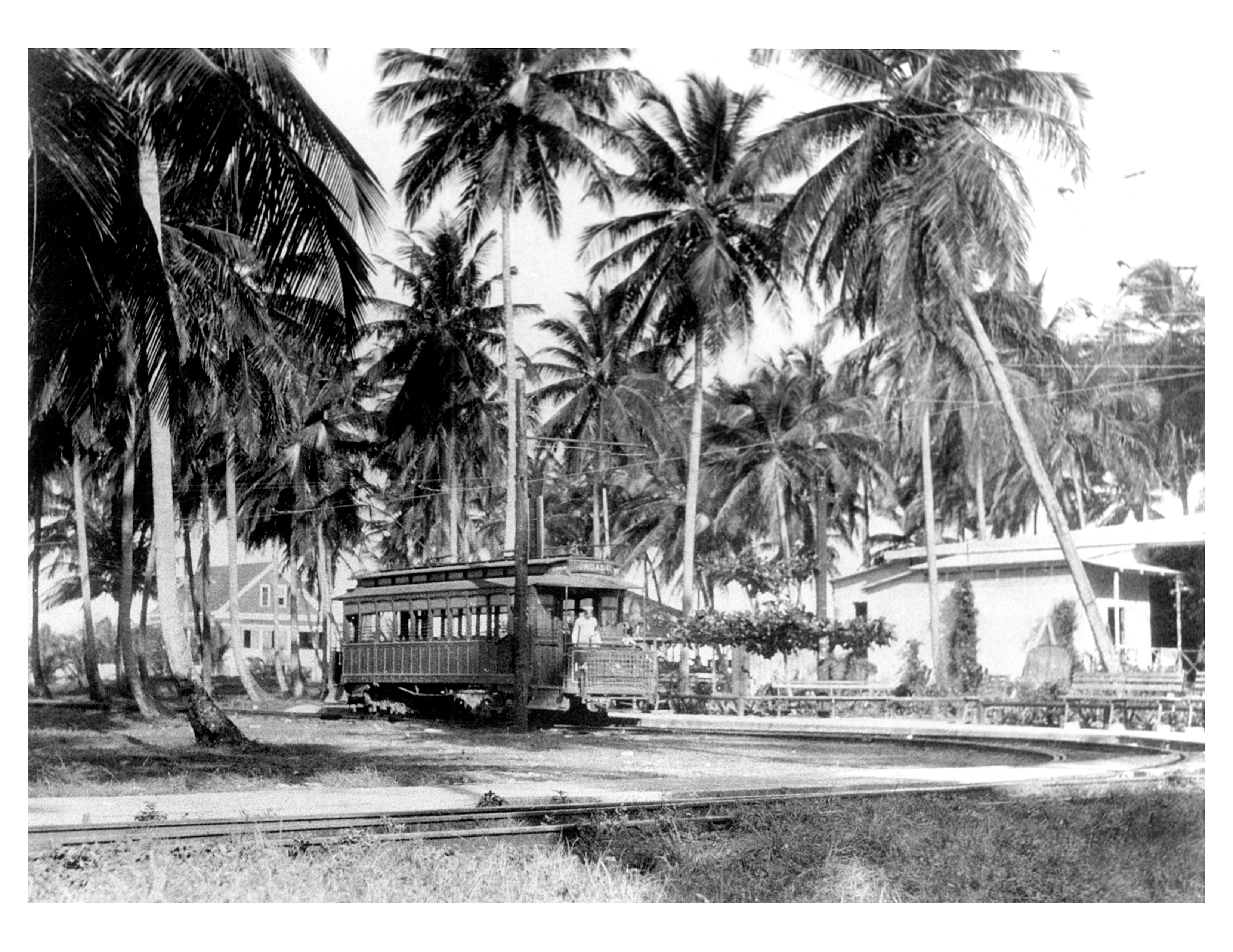 San Juan Tramway down Borinquen Park, along the Atlantic Ocean, today Ocean Park entrance.